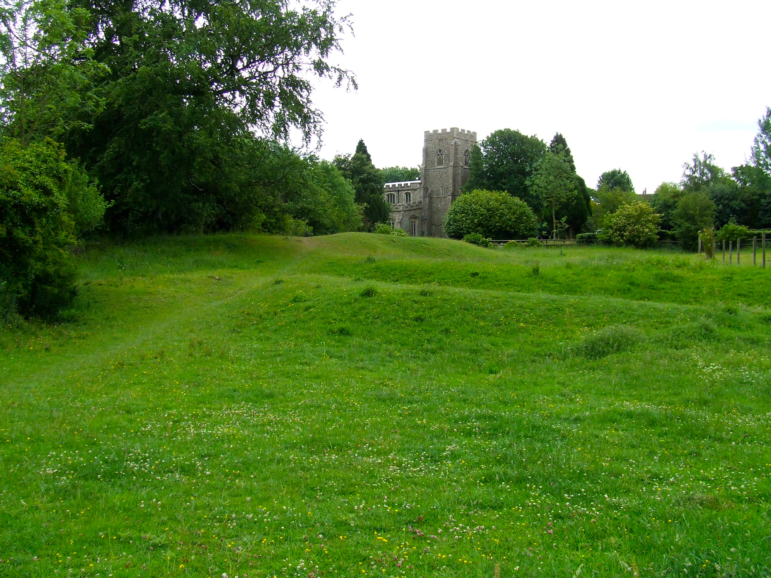 View from Clavering Castle (now ringworks and earthworks) to St Mary & St Clement Church, Clavering